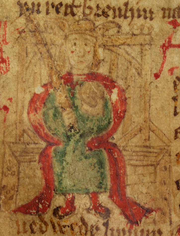 Cadwallon fab Cadfan. A crude illustration from a 15th century Welsh language version of Geoffrey of Monmouth’s highly influential Historia Regum Britanniae (‘History of the Kings of Britain’)